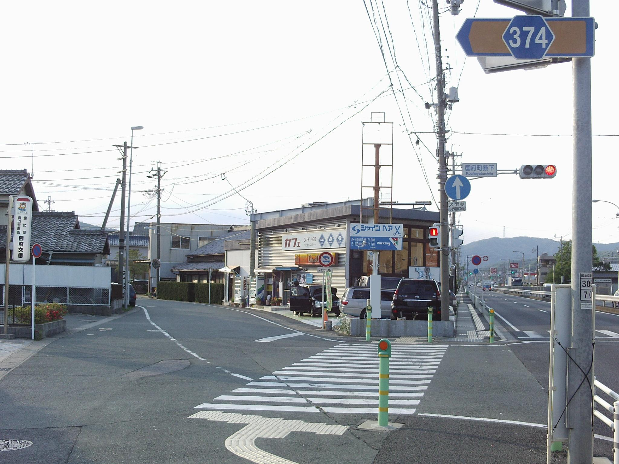 The Aichi Prefectural Road Route 374 in Kocho, Toyokawa City